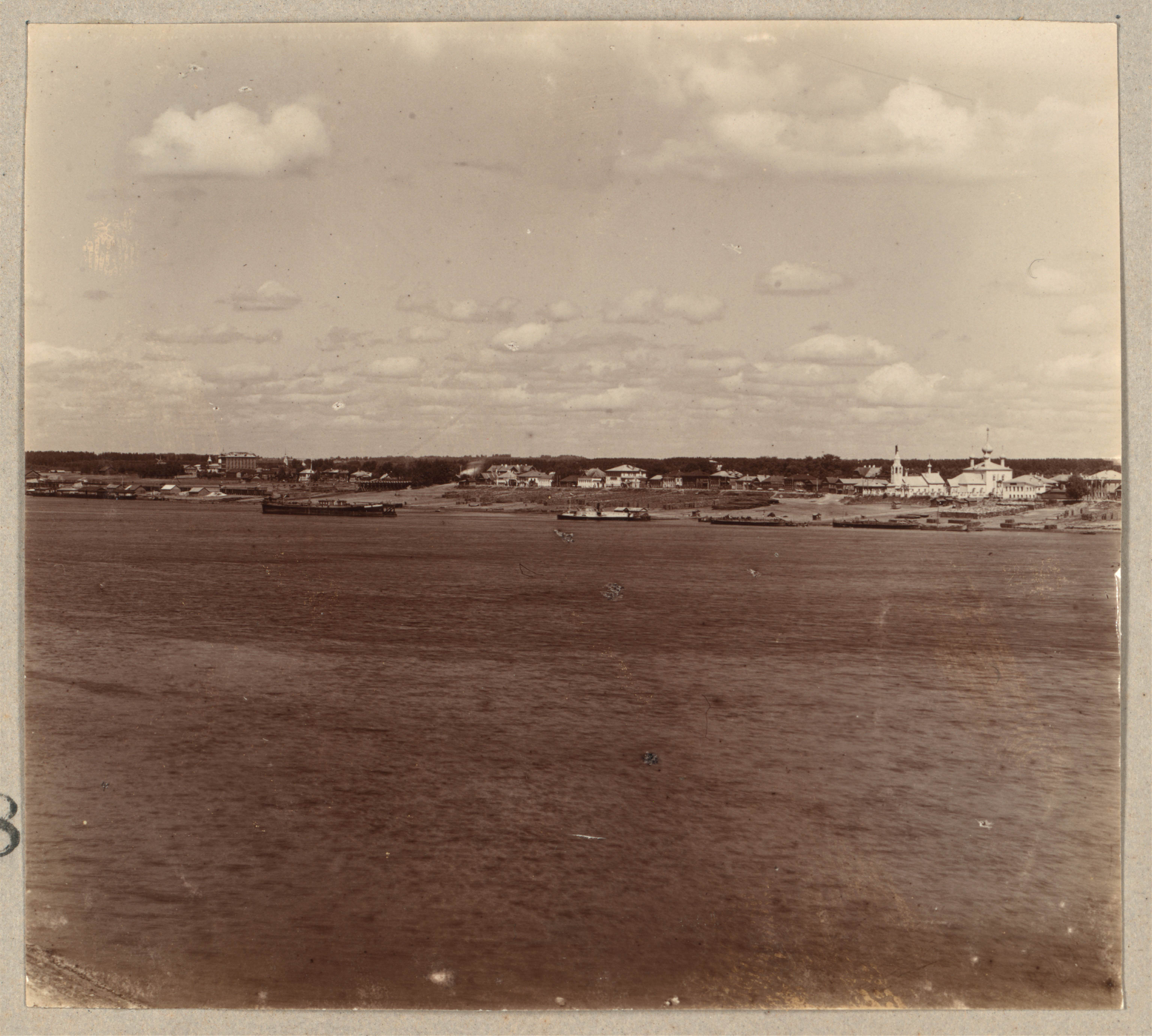 The left bank of the Volga. Yaroslavl, 1910. Photographer S. M. Prokudin-Gorskii.